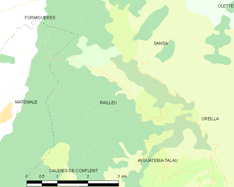 Map of French municipality